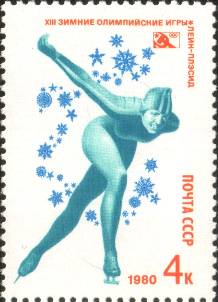 USSR stamp